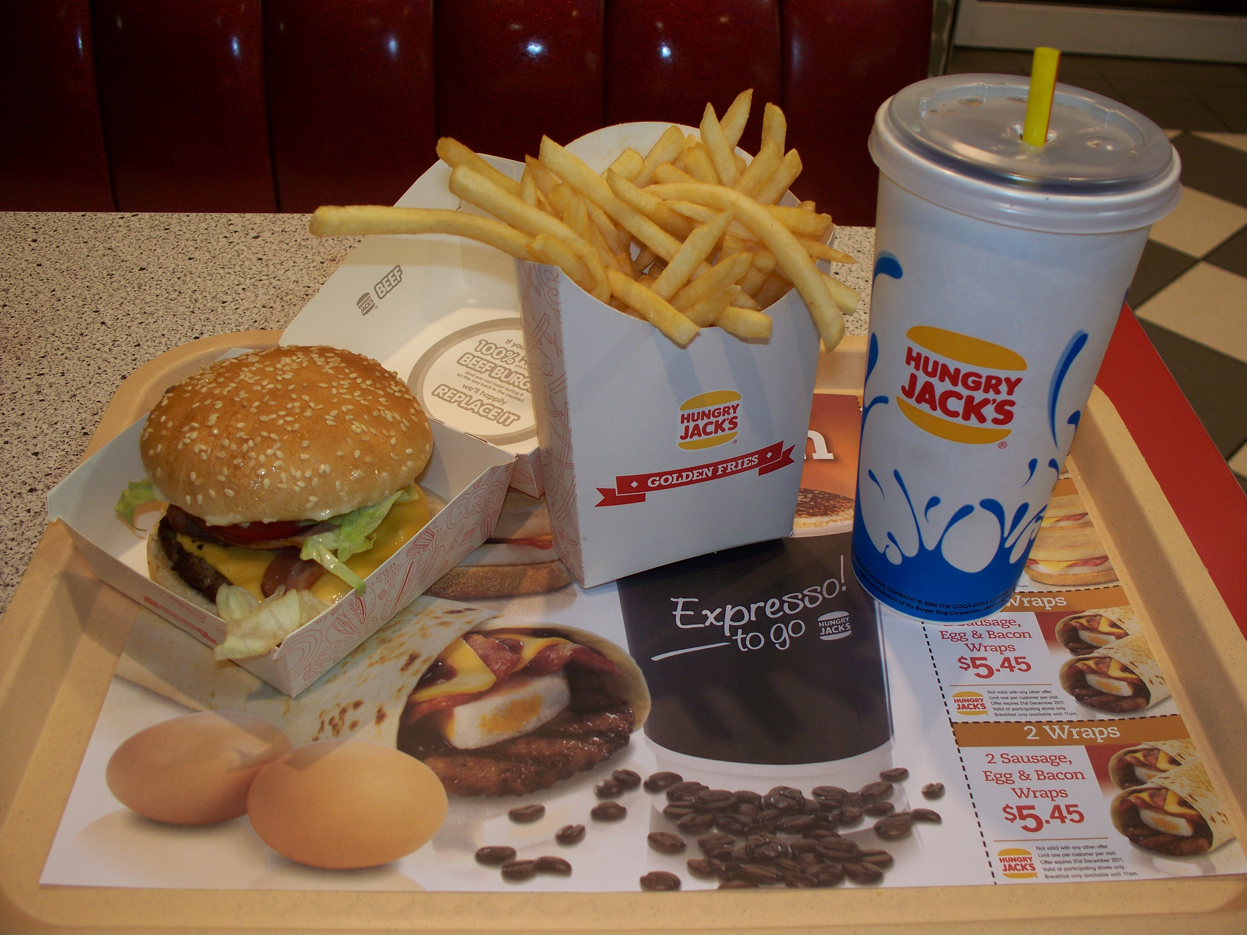 A Hungry Jack's Bacon Deluxe combo meal, a long-standing menu option unique to the Australian market. Other information This picture was taken using a 12MP Kodak EasyShare Z1275 camera.